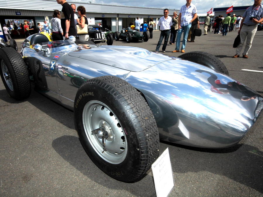 The Lister Monzanapolis-Jaguar at Silverstone Circuit